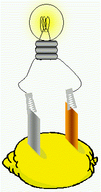 Diagram of a lemon battery experiment